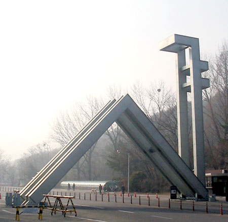 Seoul National University Front Gate in the shape of the university logo